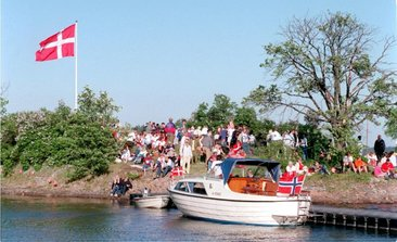 Danes celebrating Denmark's constitutional day (5 June) on the islet Denmark in the Municipality of Bærum, Norway.